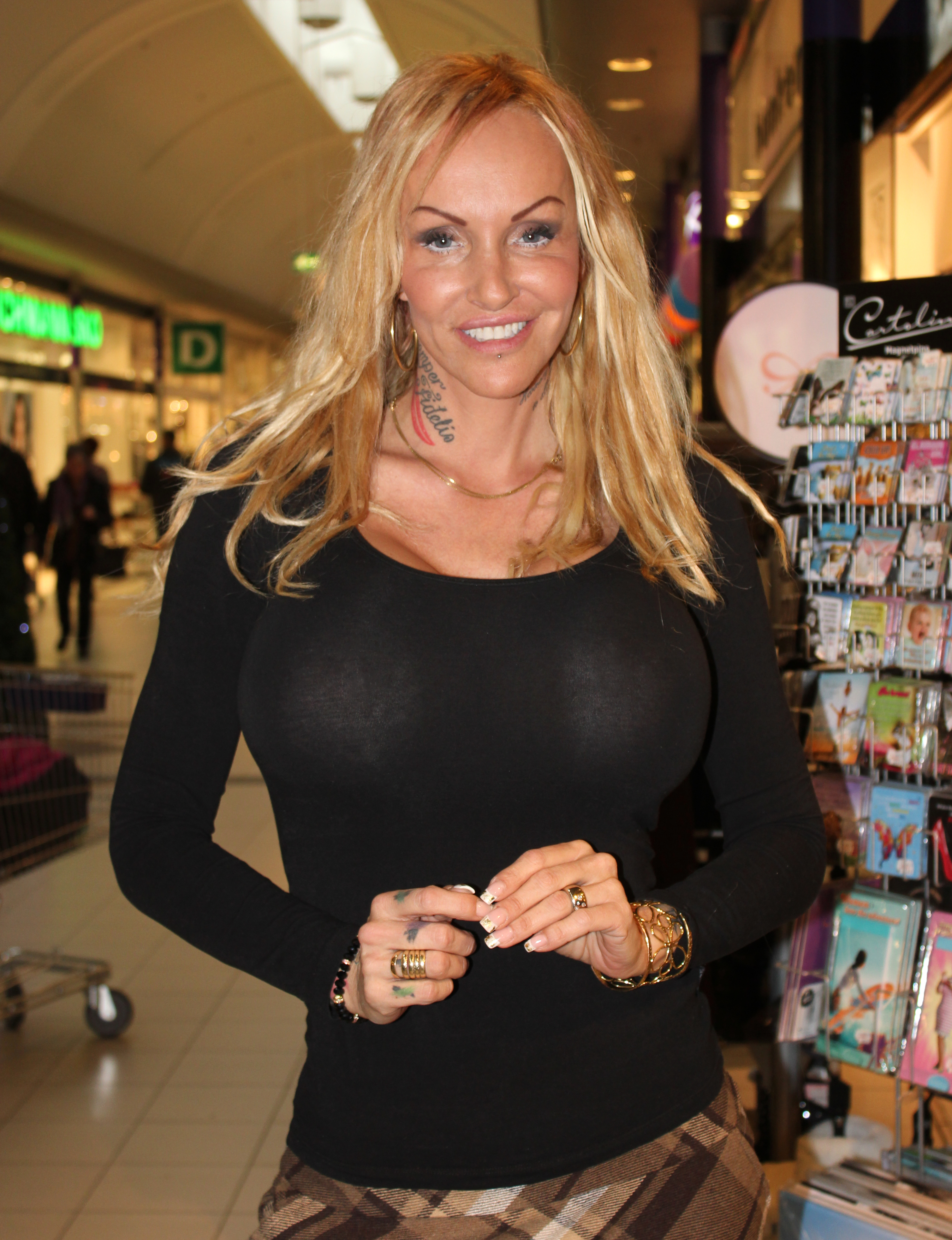 Lenina "Linse" Kessler (born March 31, 1966 in Copenhagen) is a Danish television personality, fetish model, actress and businesswoman. Kessler is known to have "Scandinavia's largest breasts" and for being the big sister for the professional boxer Mikkel Kessler. Promotiontour for her calendar, which benefits animals and here she is posing in front of the shop, Bog & Idé in Kolding Storcenter. 2013.